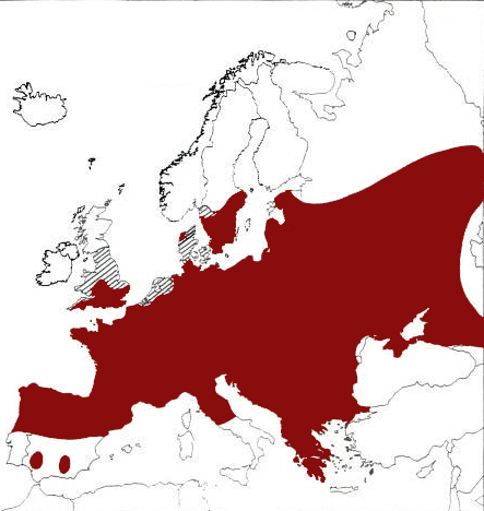 Lucanus cervus: Known range in Europe in the past (hatched) and present